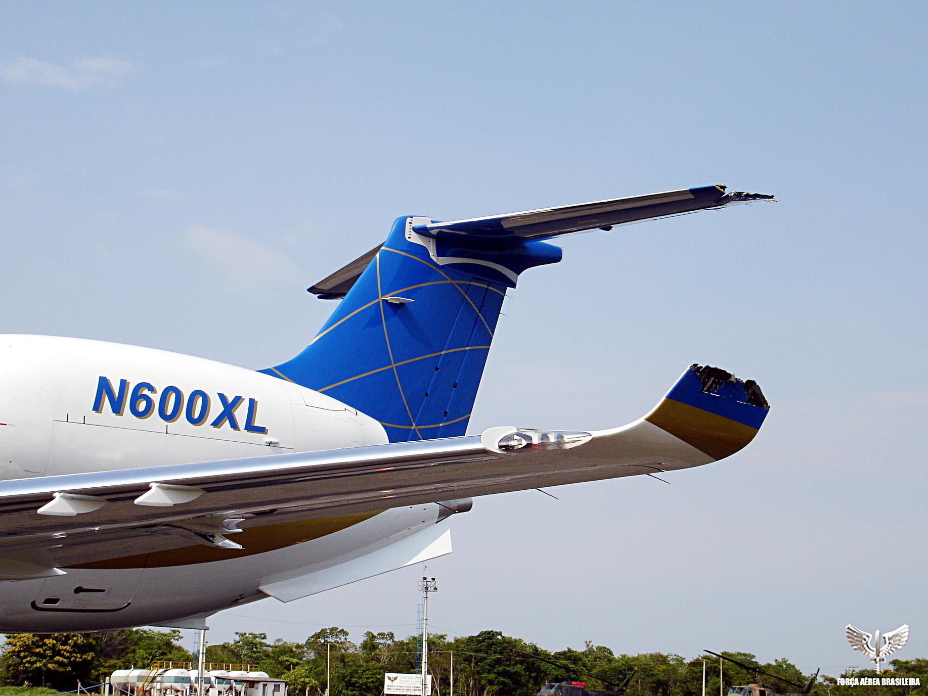 Damaged Embraer Legacy 600 aircraft, which earlier had hit the Gol 1907 aircraft, at Brigadeiro Velloso Air Force Base, Pará, Brazil.